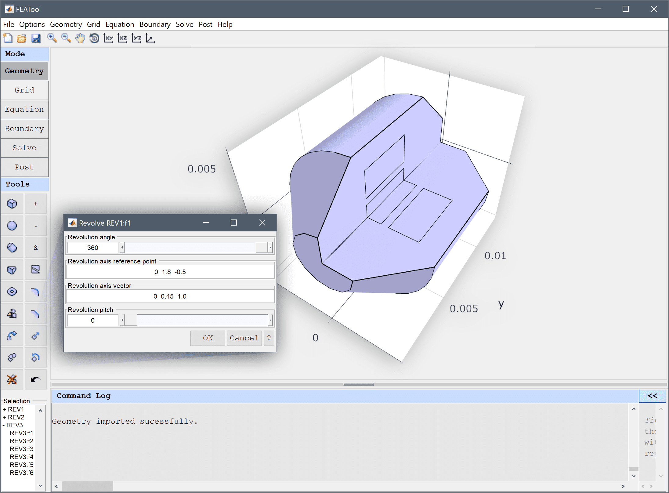 FEATool Multiphysics MATLAB GUI - Geometry and CAD Mode